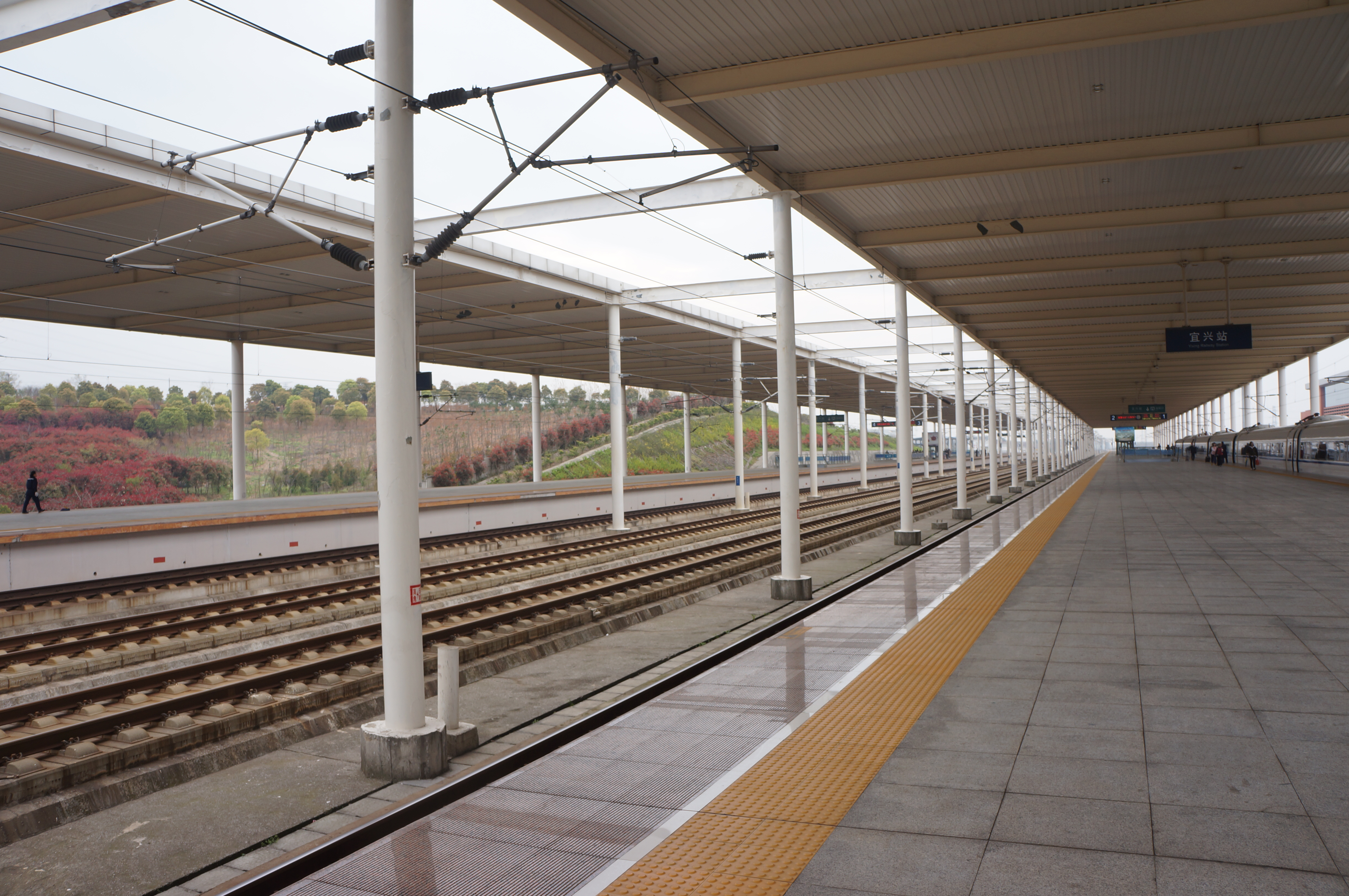 201704 Platforms at Yixing Station